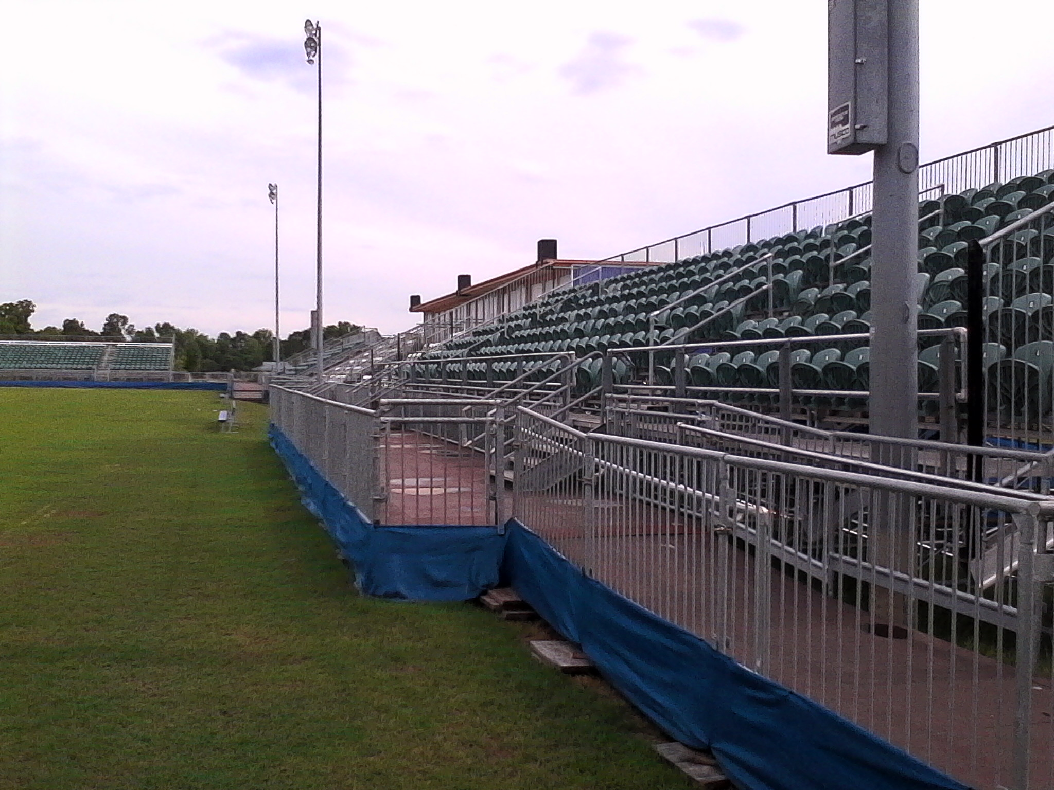 One of the temporary stands at Ramblewood Park during its stint as the home of the Charlotte Independence.